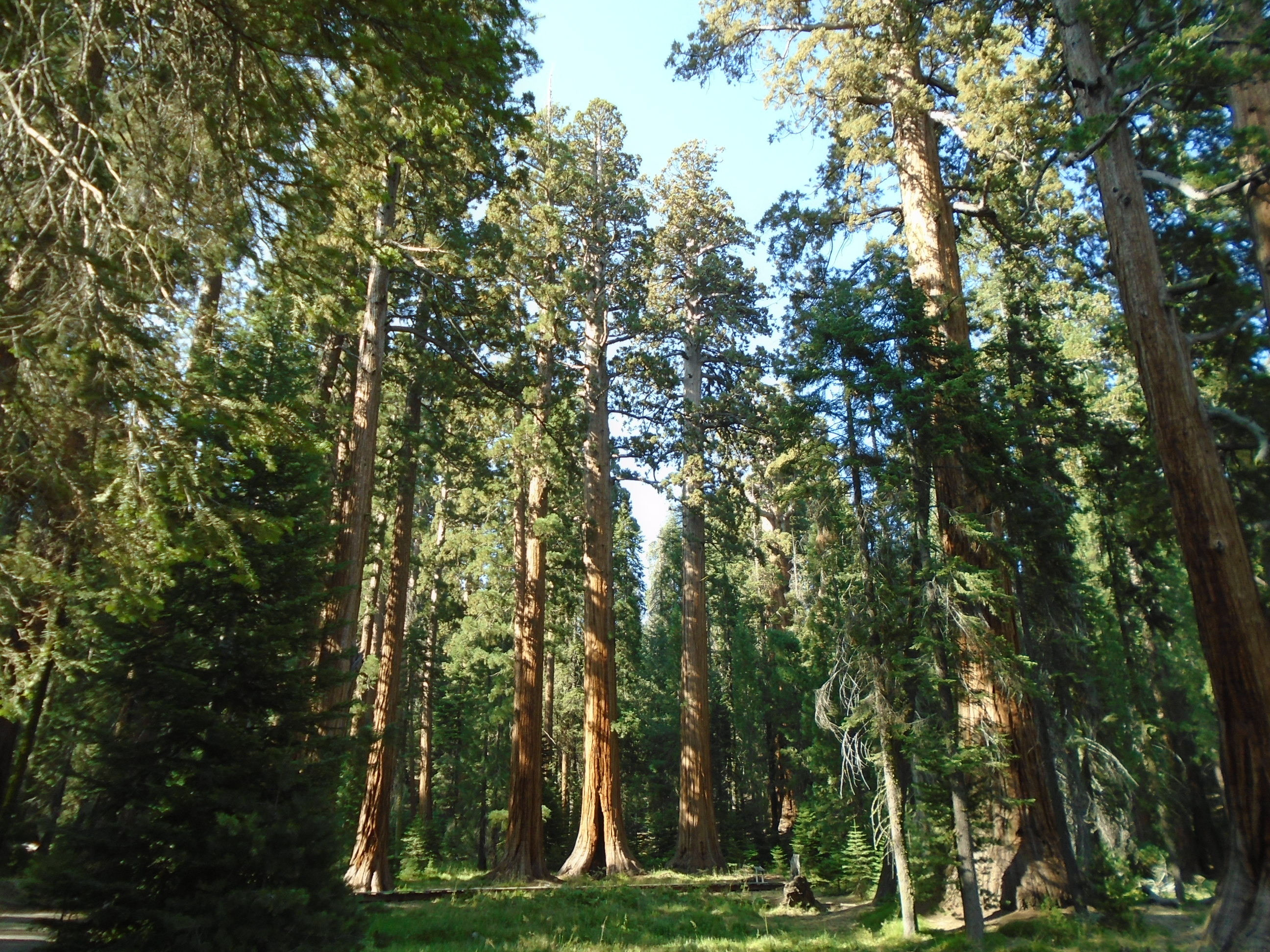 Sequoiadendron giganteum, Big Trees Trail, Sequoia National Park